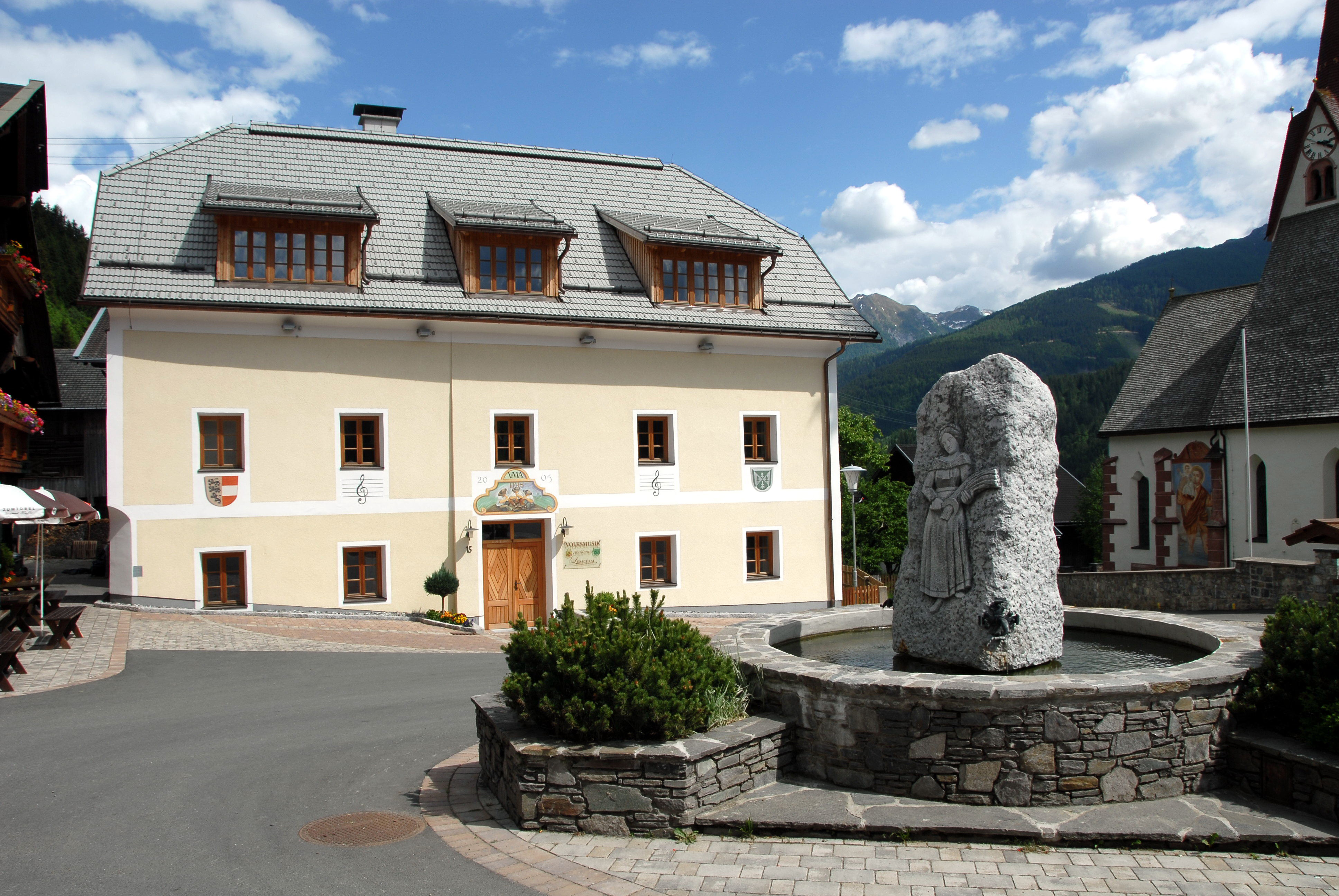 Main square with popular music academy and fountain at Liesing, municipality Lesachtal, district Hermagor, Carinthia / Austria / EU